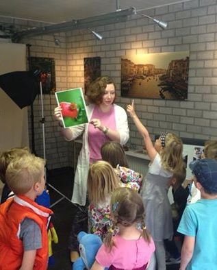 Ekaterina Kruchkova in her studio. A workshop for children. September 2013